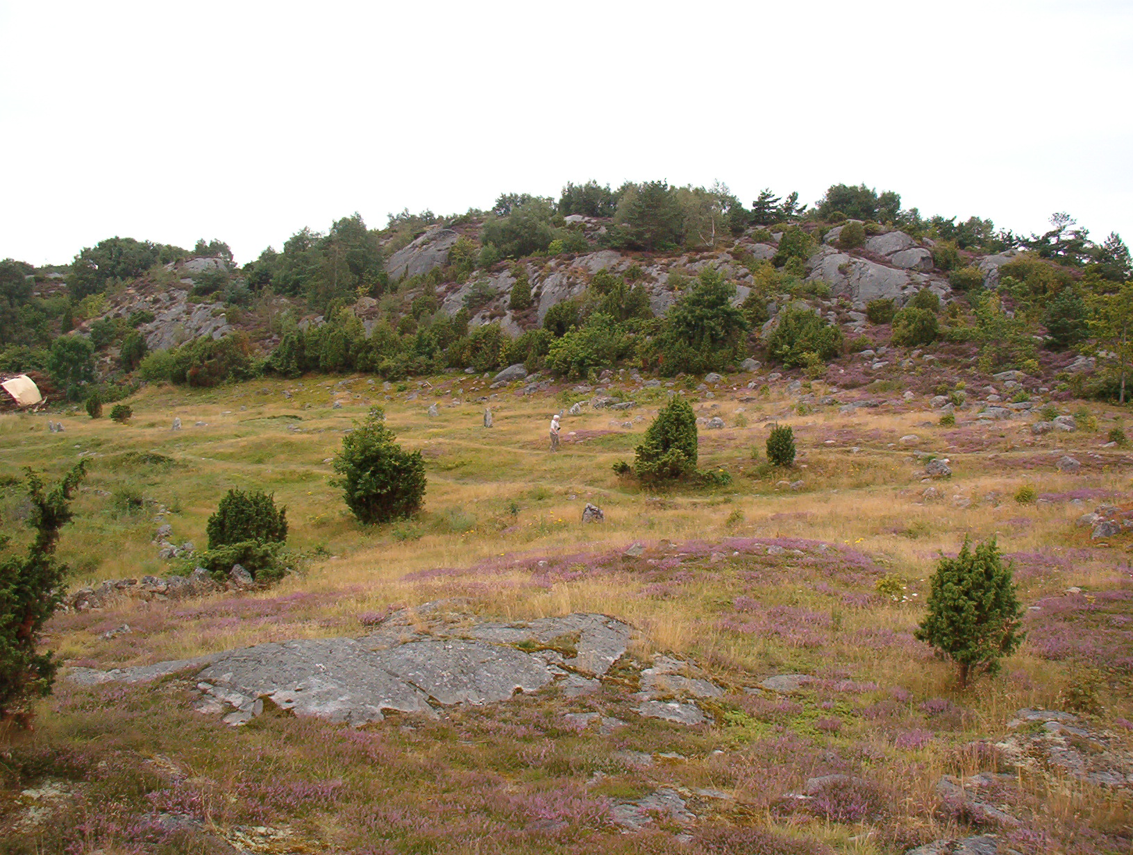 Gravefield-area from the Iron Age at Pilane (RAÄ-nr Klövedal 105:1) in Klövedal parish on the island Tjörn, Tjörn municipality, Bohuslän, Västra Götaland county, Sweden. Typical Bohuslandian bald rocks in background This is an overview of the field. See Image:Gravält, Tjörn.jpg for a close view of a grave setting.